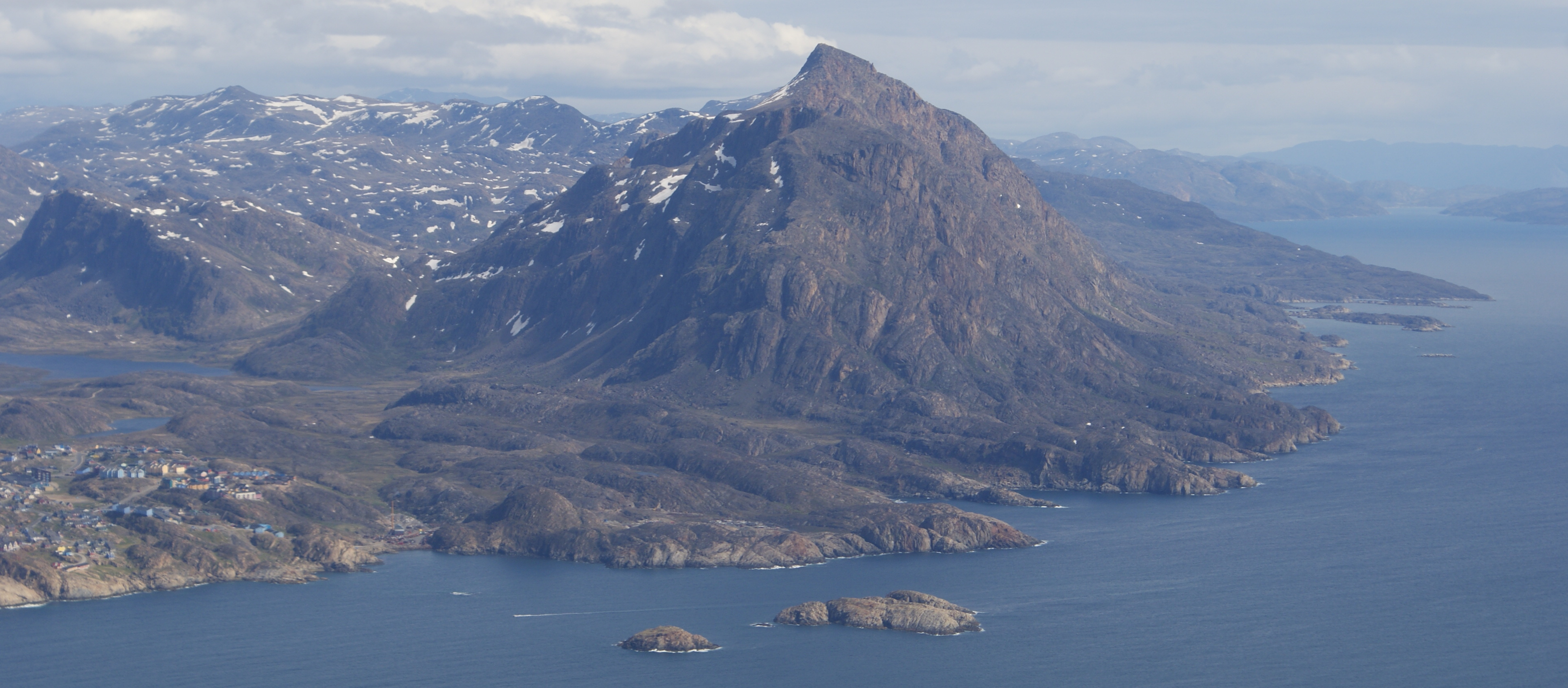 Aerial view of Nasaasaaq mountain (784m), Greenland. Photographed from the Air Greenland de Havilland Canada Dash-7 "Sululik" during the Sisimiut-Nuuk flight.